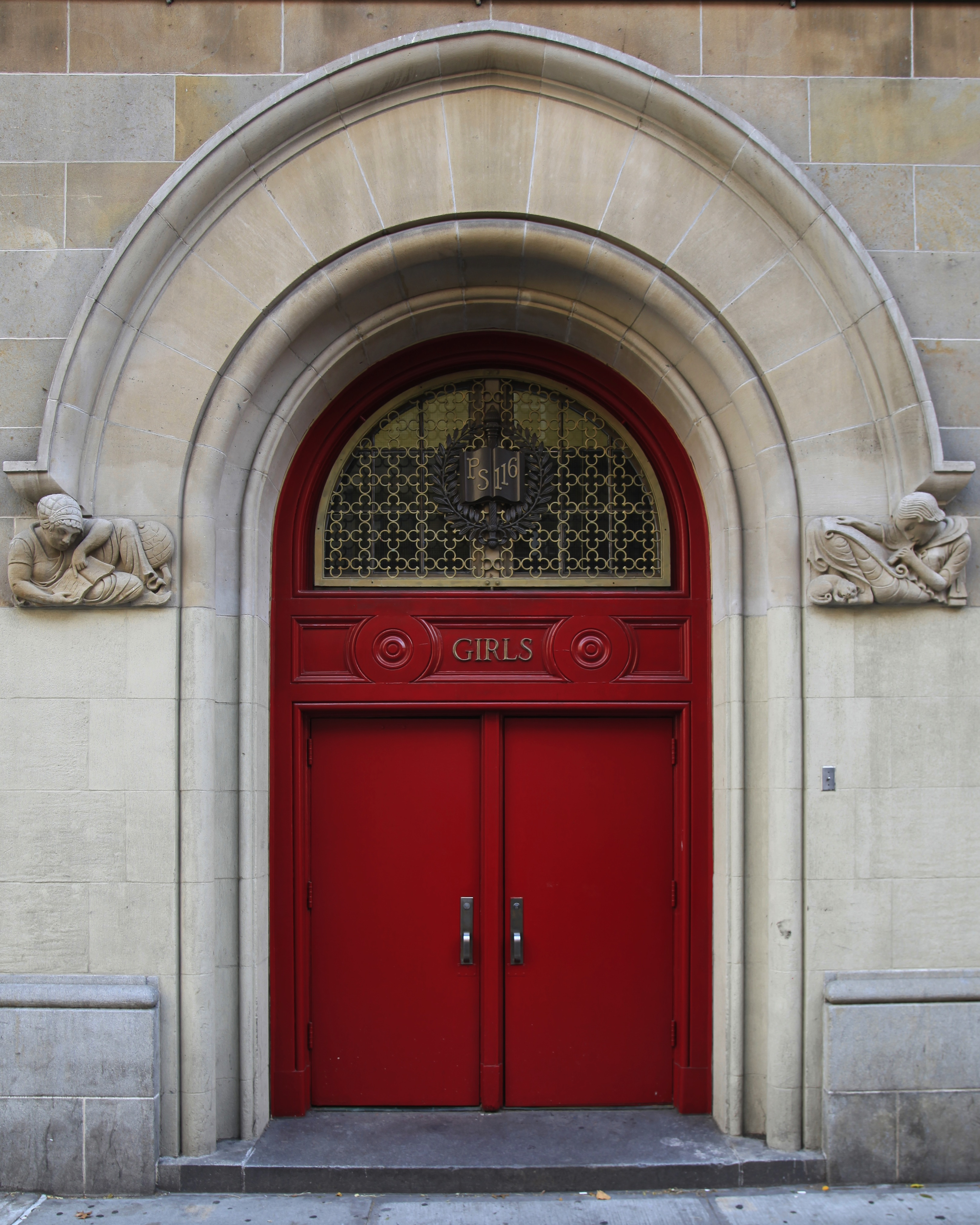 PS116 girls entrance. The boys go in the boys door.